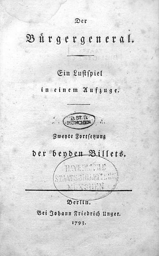 Johann Wolfgang von Goethe (1749–1832) Description German poet Date of birth/death28 August 174922 March 1832Location of birth/deathFrankfurt am Main, GermanyWeimar, GermanyAuthority control VIAF: 24602065 LCCN: n79003362 GND: 118540238 SELIBR: 56318 BnF: cb11905269k ULAN: 500014761 ISNI: 0000 0001 2099 9104 WorldCat WP-Person